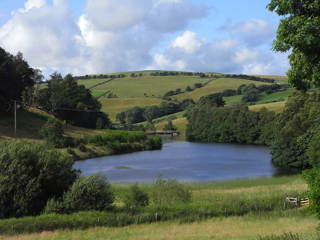 Chapelhouse Reservoir The small reservoir is viewed from the Longlands to Orthwaite road. It is fed by the stream flowing out of the nearby and natural Over Water.